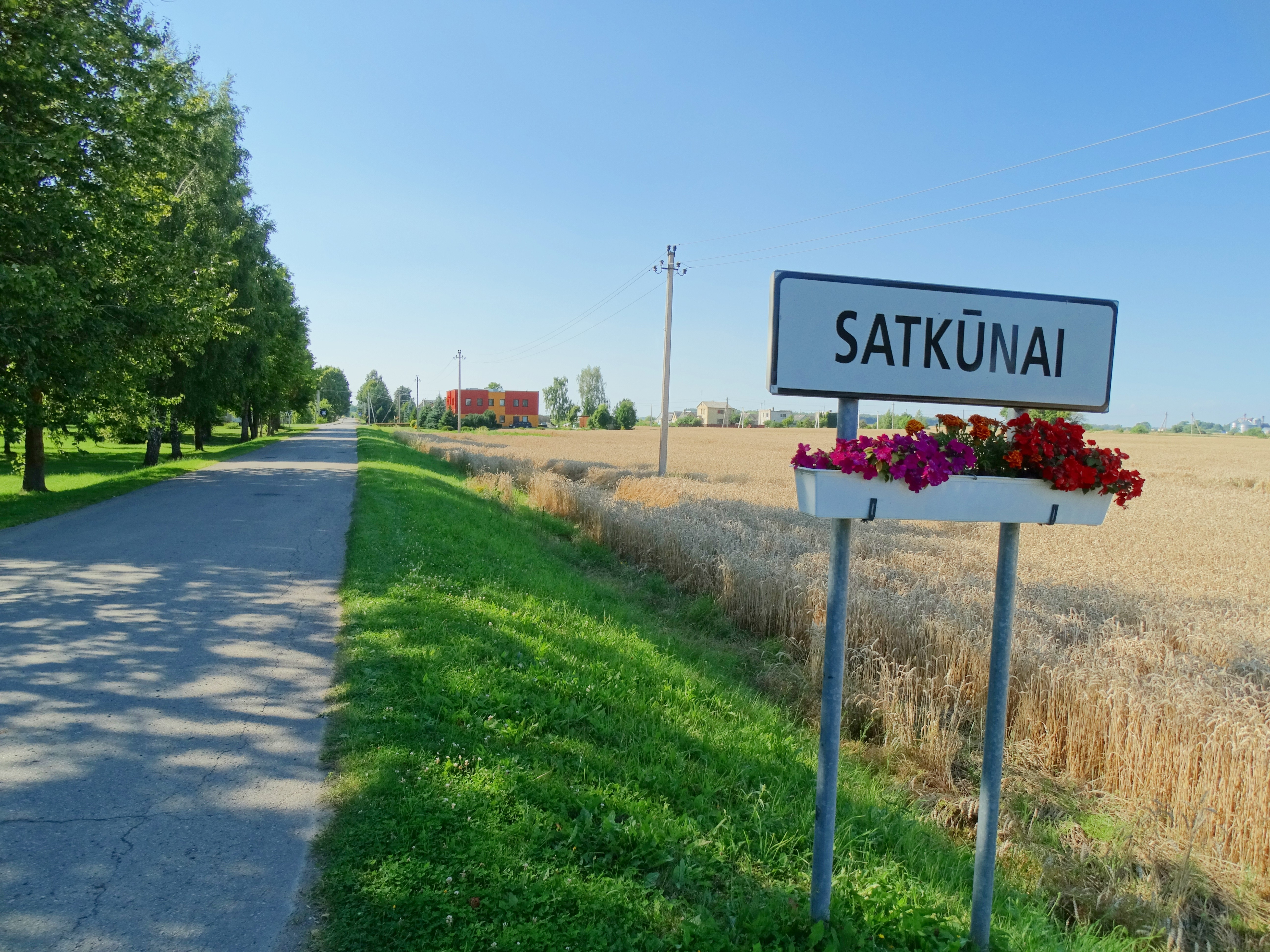 Satkūnai, Joniškis District, Lithuania